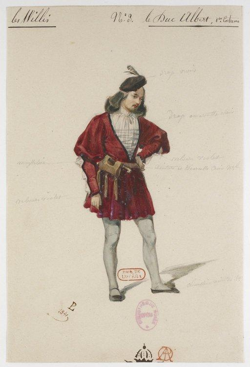 Costume design for Giselle by Lormier 1841